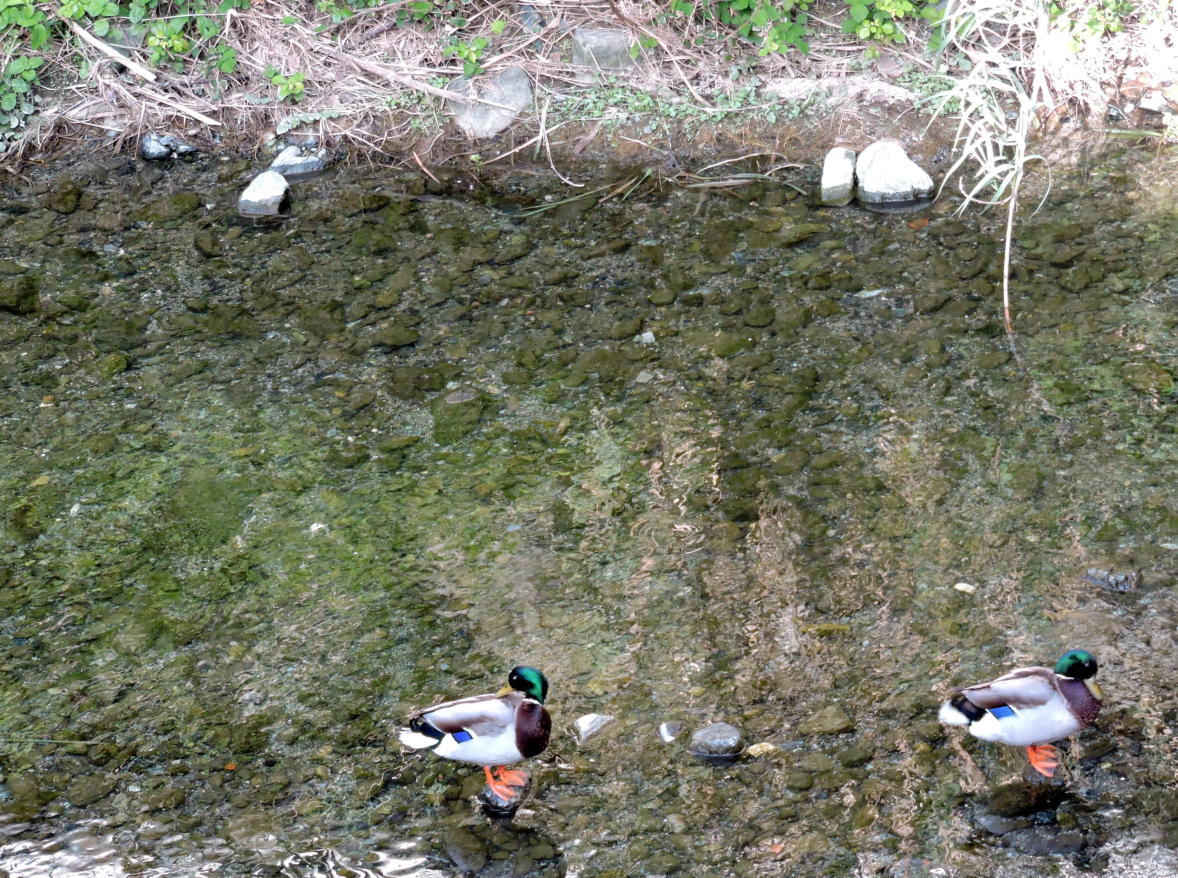 Torrente Branega in Prà (Genoa, Italy): two mallards